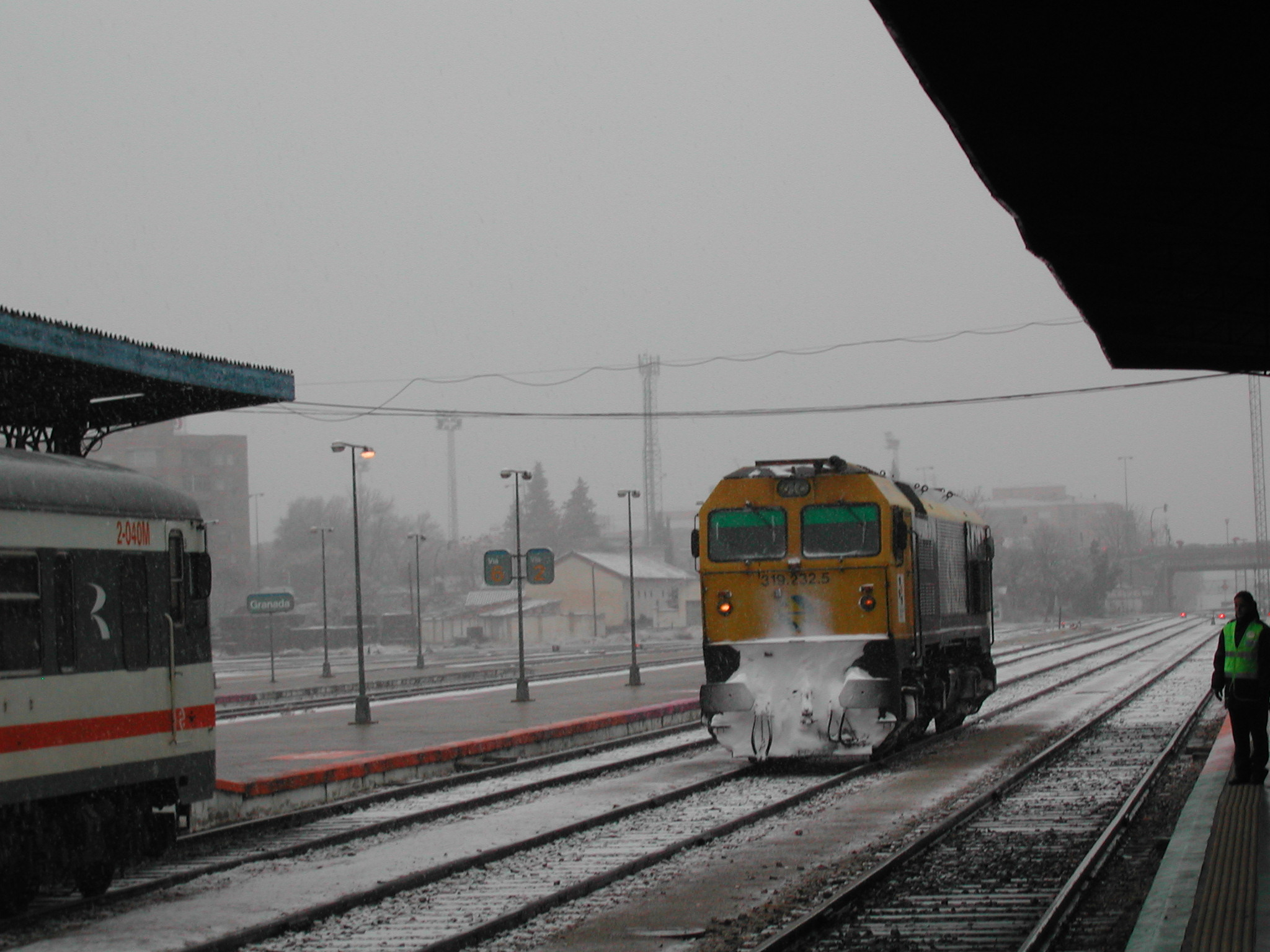 Snow at the Granada train station, spain, with a Renfe class 319.